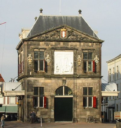 City scale (Waaggebouw ), Gouda